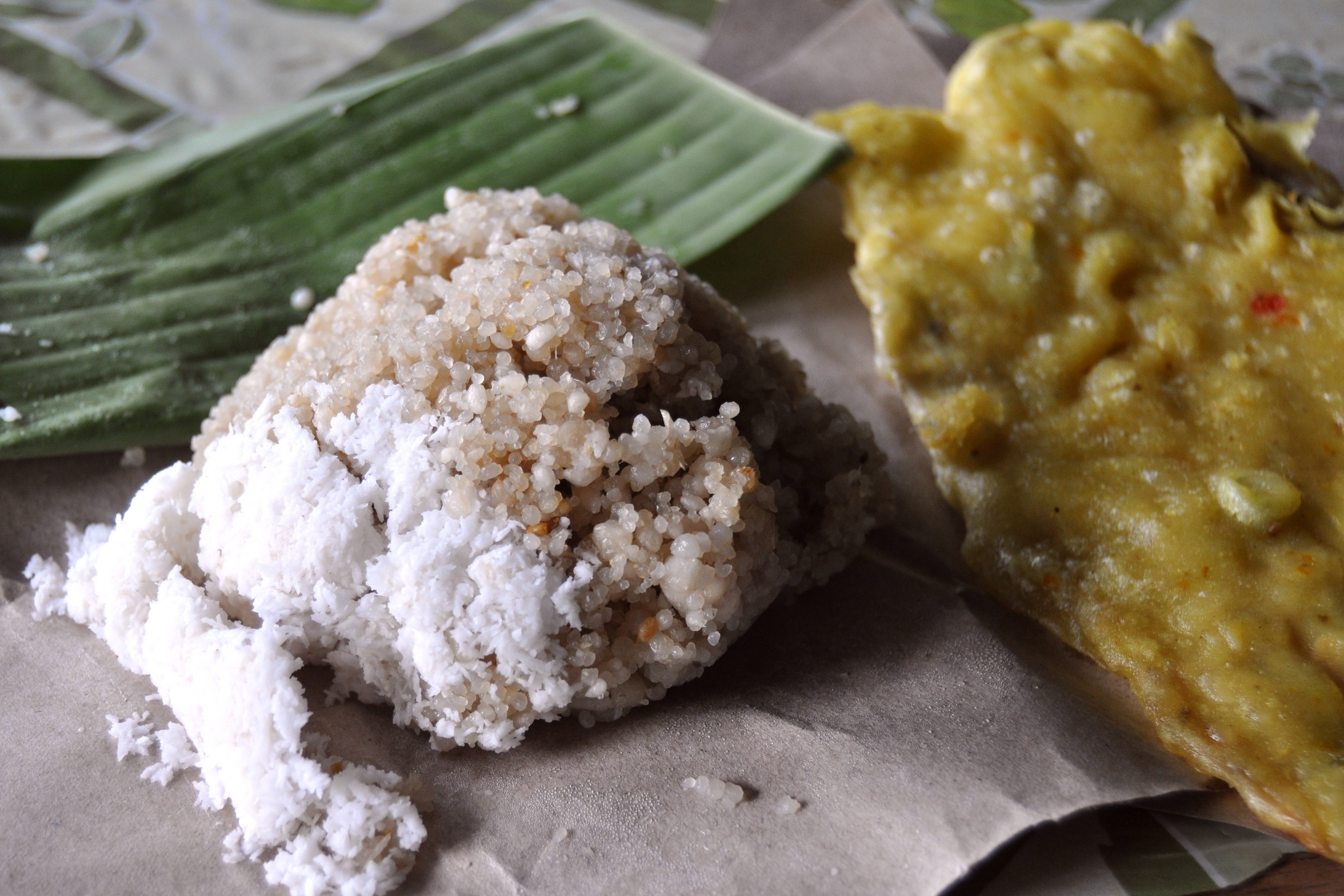 Nasi oyek (=boiled 'rice' from dried cassava), served with grated coconut and fried tempeh. Kebumen, Central Java , Indonesia.